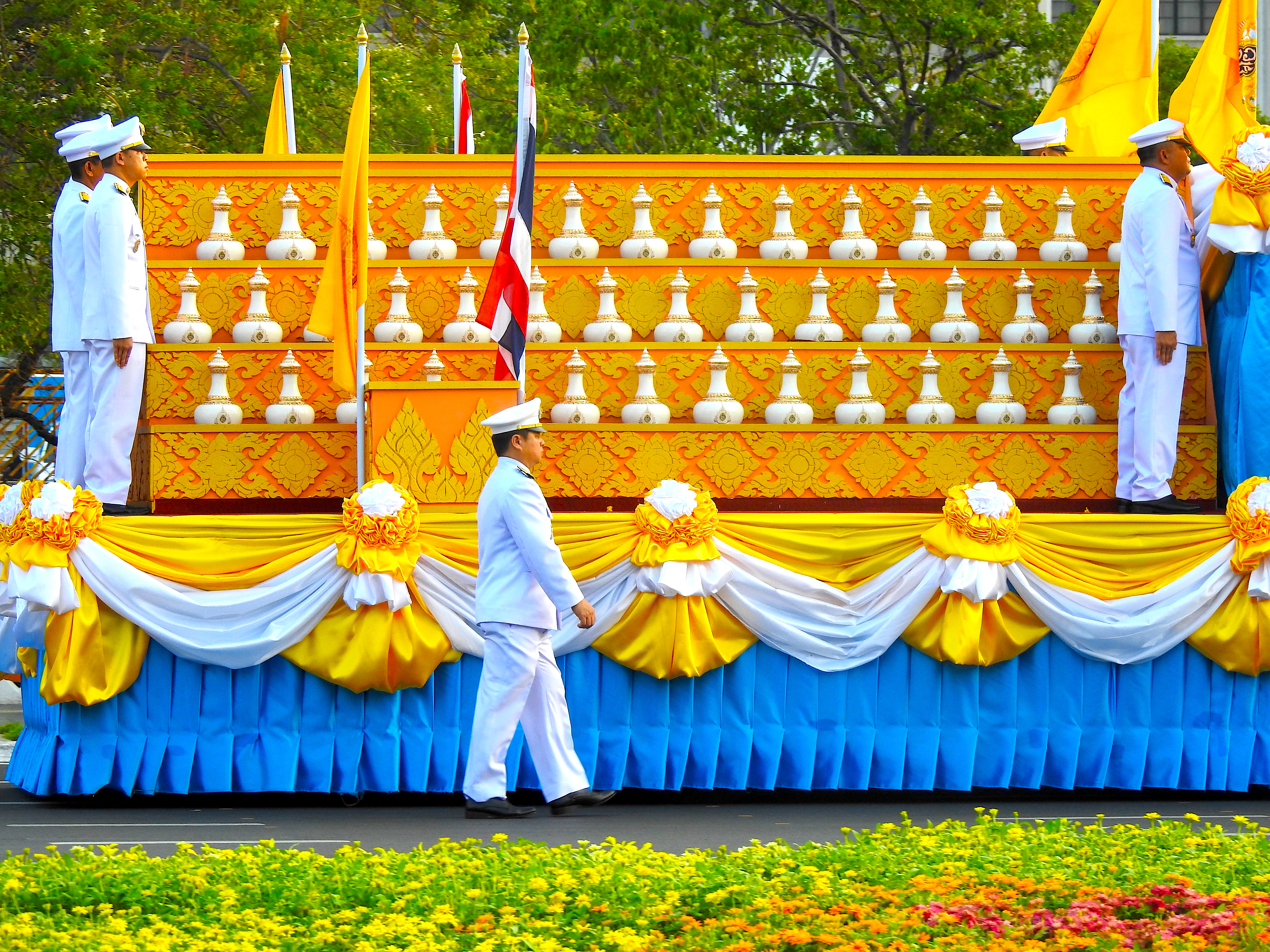 The Coronation of King Rama X